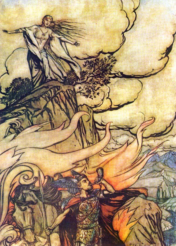 Siegfried leaves Brünnhilde in search of adventure.